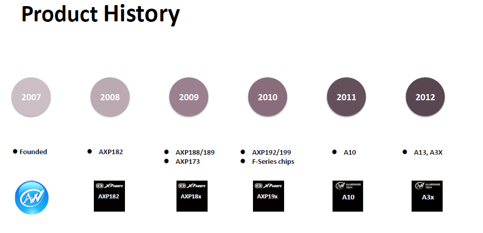 Allwinner product launch history